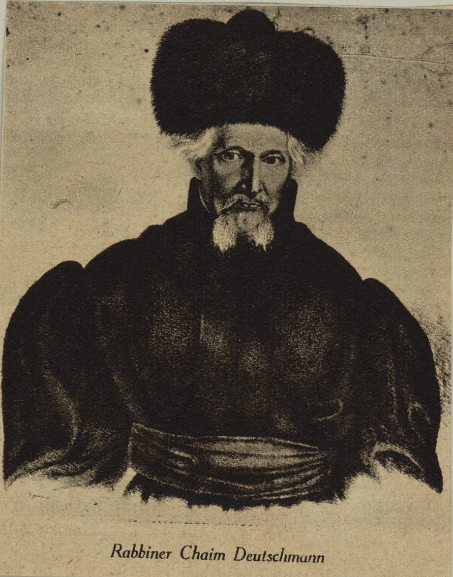 Rabbi Chaim Deutschmann (1760 - 1837)